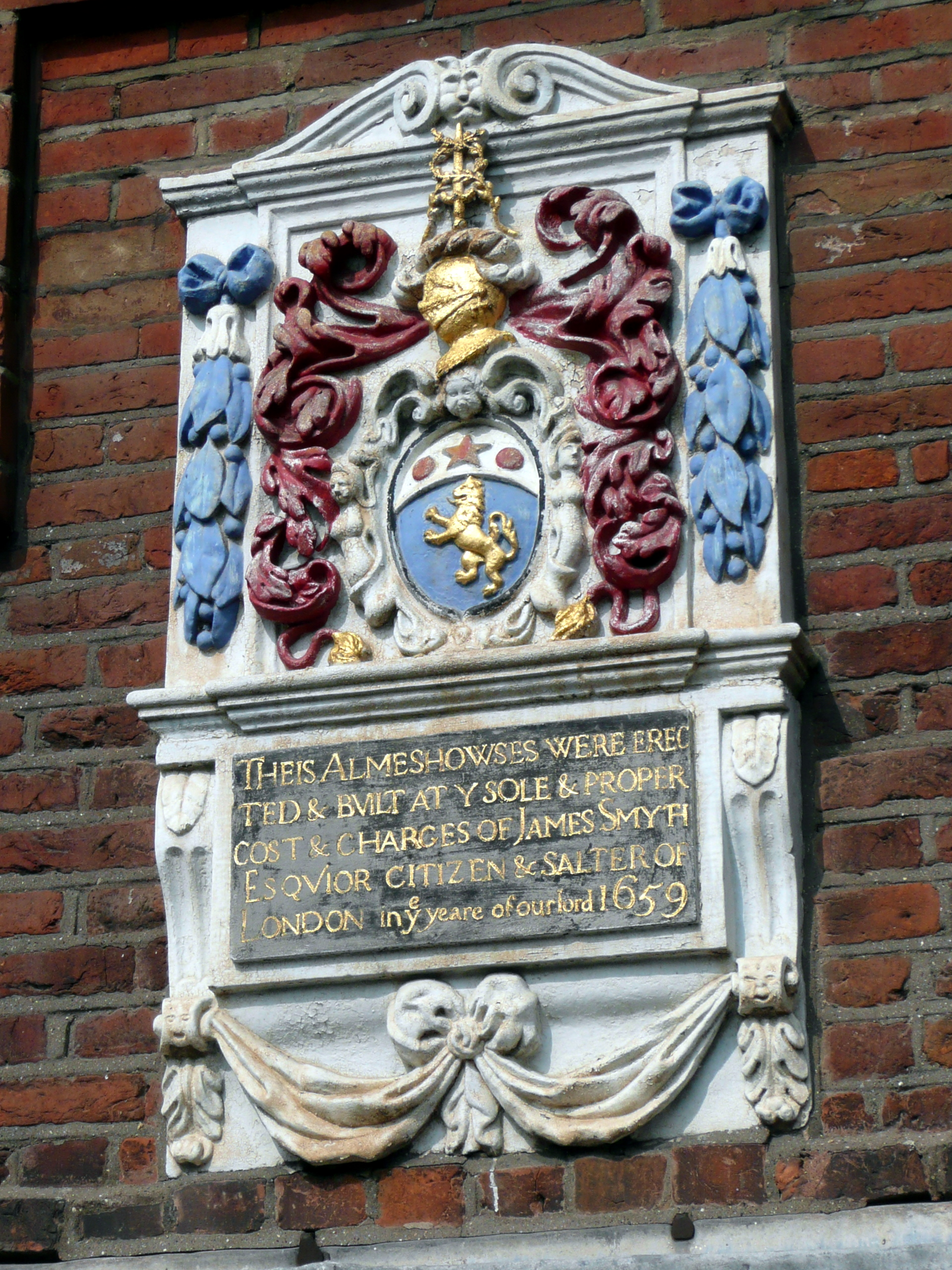 Plaque on Smyth's Almshouses in Bridge Street, Maidenhead. Founded by James Smyth, a salter, in 1659.